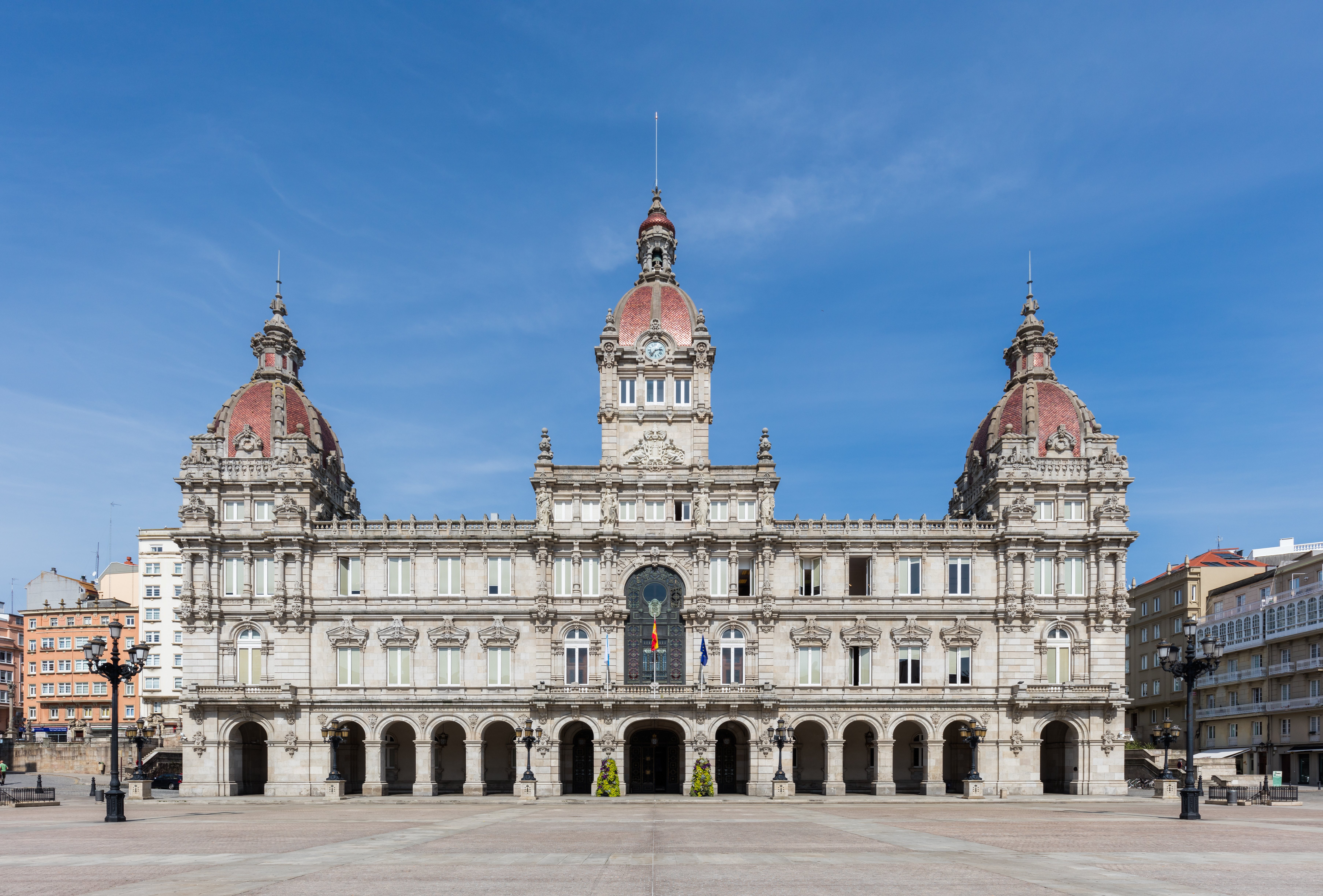 Front view of the City Hall, also called the Municipal Palace, of A Coruña in Galicia, Spain, during the blue hour. The modernist building is located in the María Pita Square in the center of the city and was built between 1908 and 1912 following a design of Pedro Ramiro Mariño. It was inaugurated in 1927 by king Alfonso XIII. The facade is 64 metres (210 ft) wide and has 43 windows. The ground area of the building is 2,300 m2 (24,757.0 sq ft). The four statues on the third floor represent the four provinces of Galicia — A Coruña, Lugo, Orense and Pontevedra. Over them, in the middle, is the coat of arms of the city. The two dames flanking it symbolize Peace & Industry and Work & Wisdom. The tower in the middle accommodates the clock and the bells, which are made of bronze and tin and weigh 1,600 kilograms (3,527 lb).